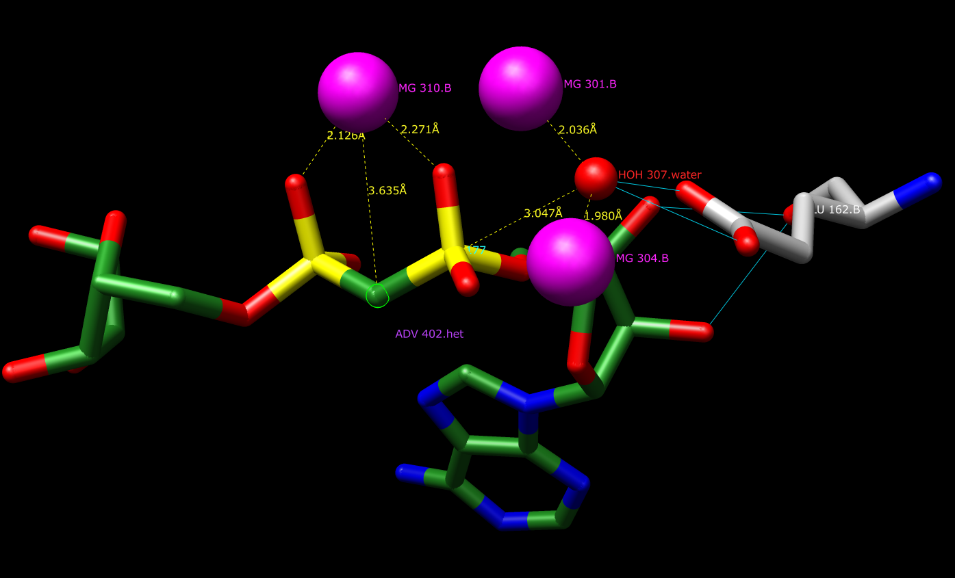 ADP Ribose Diphosphatase Mechanism (Glutamate 162 as catalyst)